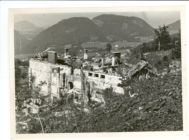 Caption: Hitler's house, as it is today after the bombing just before the end of the war. This is Berchtesgaden. The houses of Barman and Goering are nearby. The Eagles' nest is 800 meters higher. Citation: Arthur Voth Photographs, 1947-1949. HM4-387 Box 1 Folder 2 photo 2. Mennonite Church USA Archives - Goshen. Goshen, Indiana.